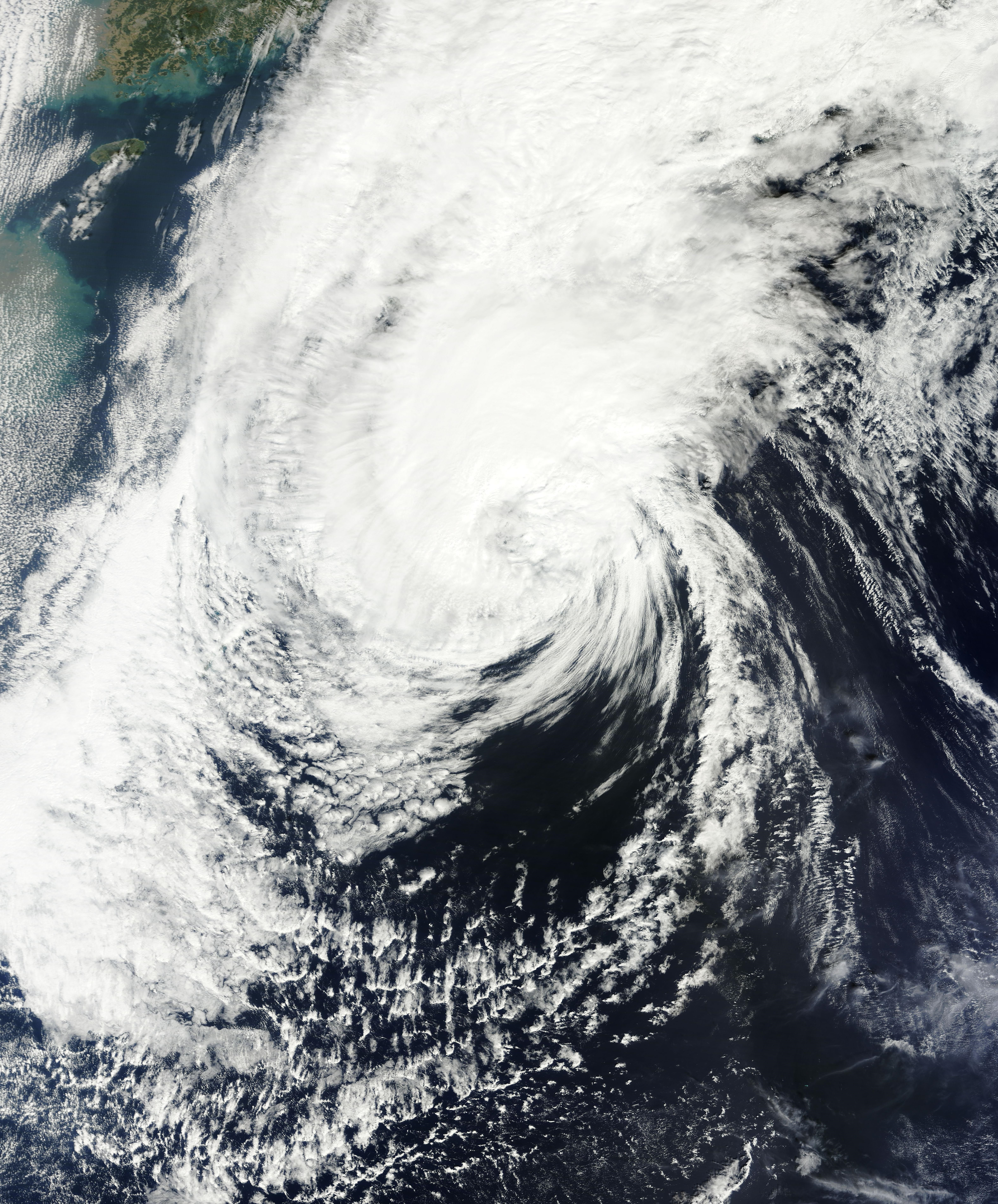 Severe Tropical Storm Francisco (26W) in the Pacific Ocean on October 25,2013